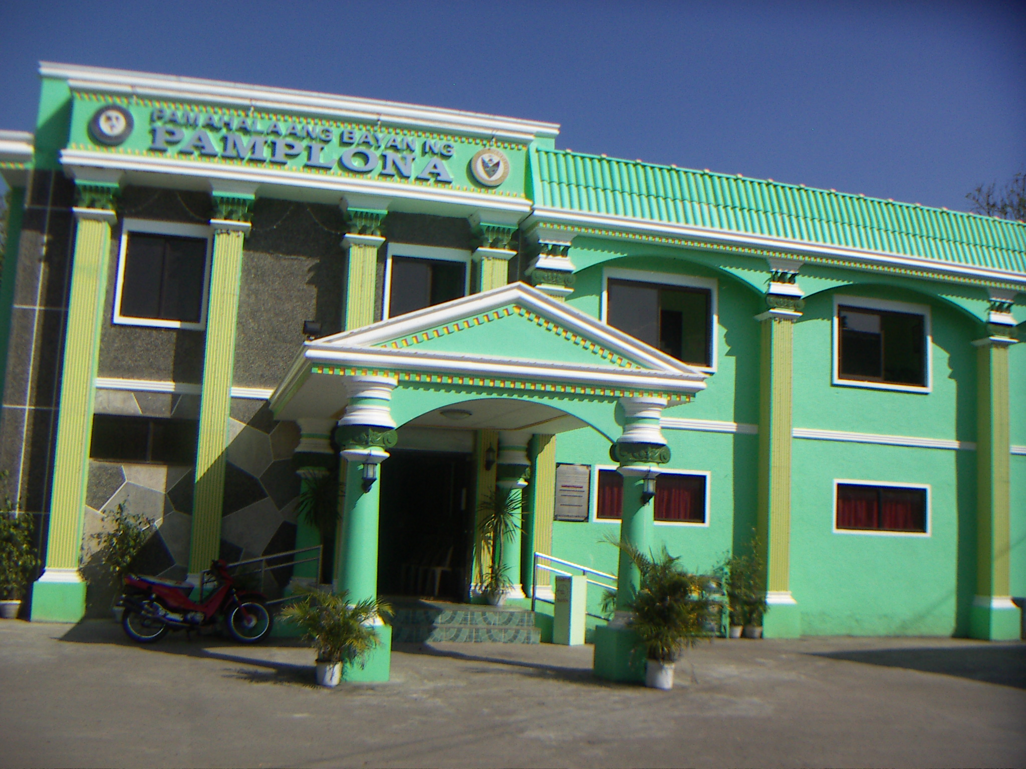 Municipal building of Pamplona, Camarines Sur, Philippines